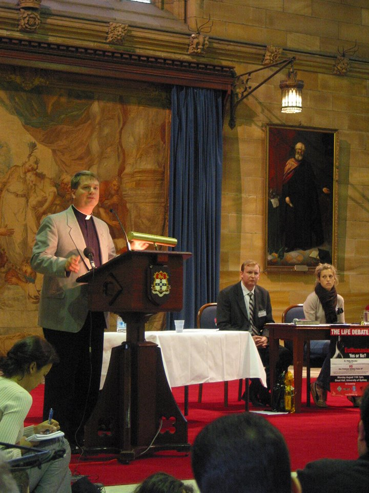 Bishop Fisher debating Dr Nitschke at Sydney University, 2003